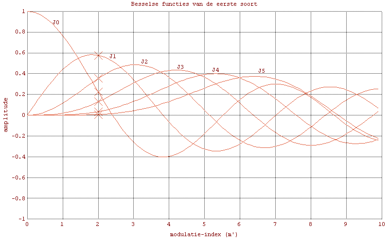 Plot of the Bessel functions of the first kind, J n ( x ) {\displaystyle J_{n}(x)} , of orders n = 0 , 1 , 2 , 3 , 4 , 5. {\displaystyle n=0,1,2,3,4,5.}